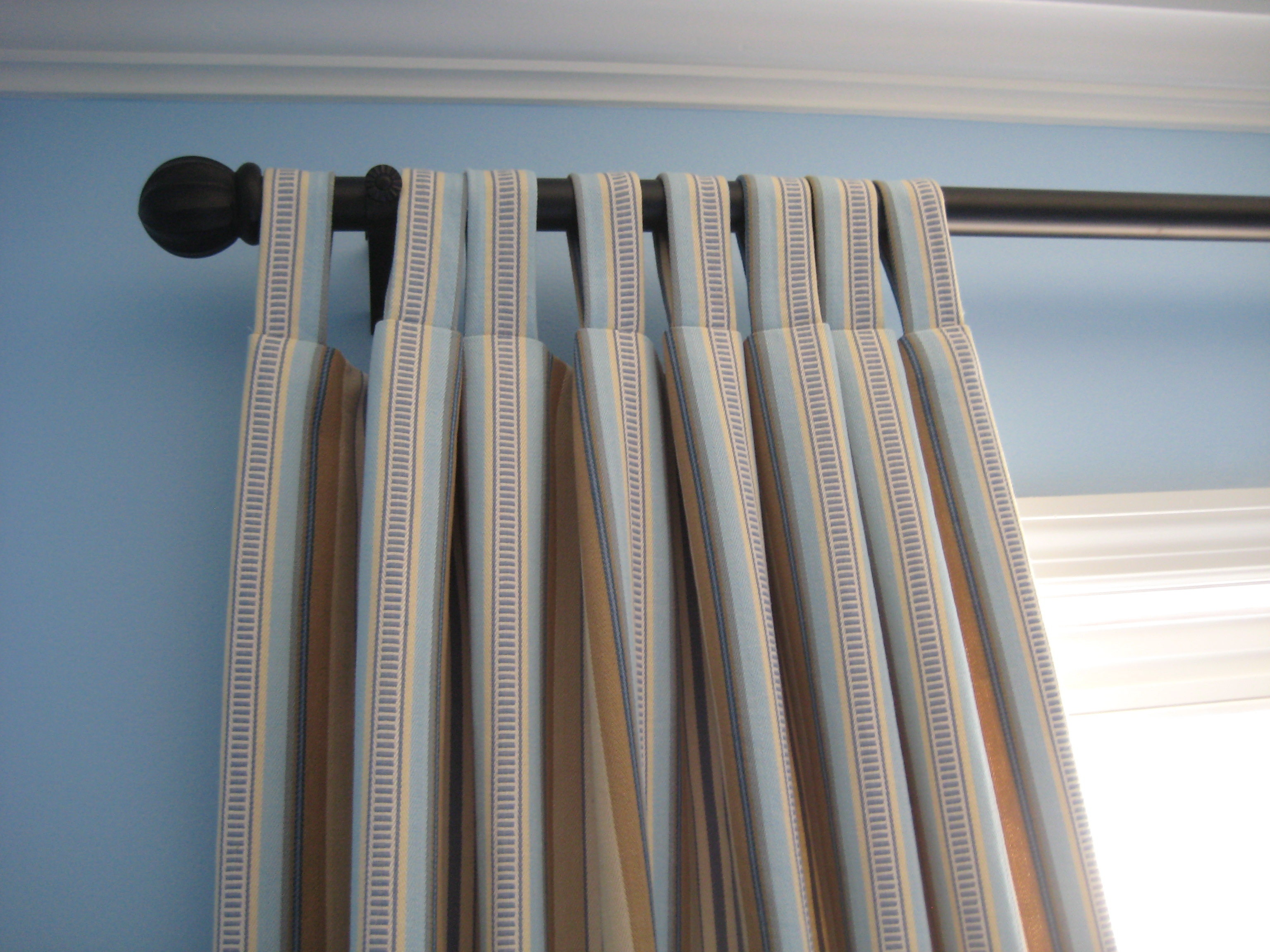 Detail of the curtains shows how the stripes are cleverly aligned on the tabs for a polished result.